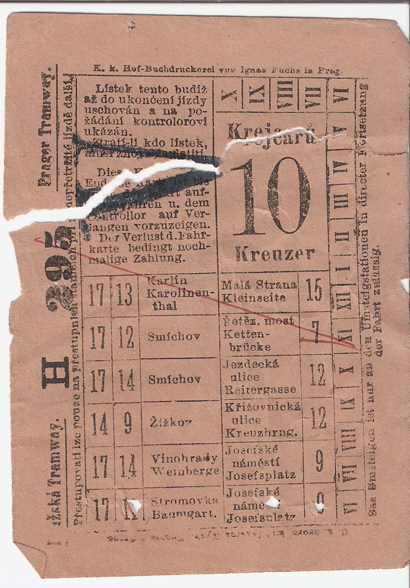 Ticket for "Prague Tramway" coming from the old Austria-Hungary monarchy. Prague, Czech Republic.